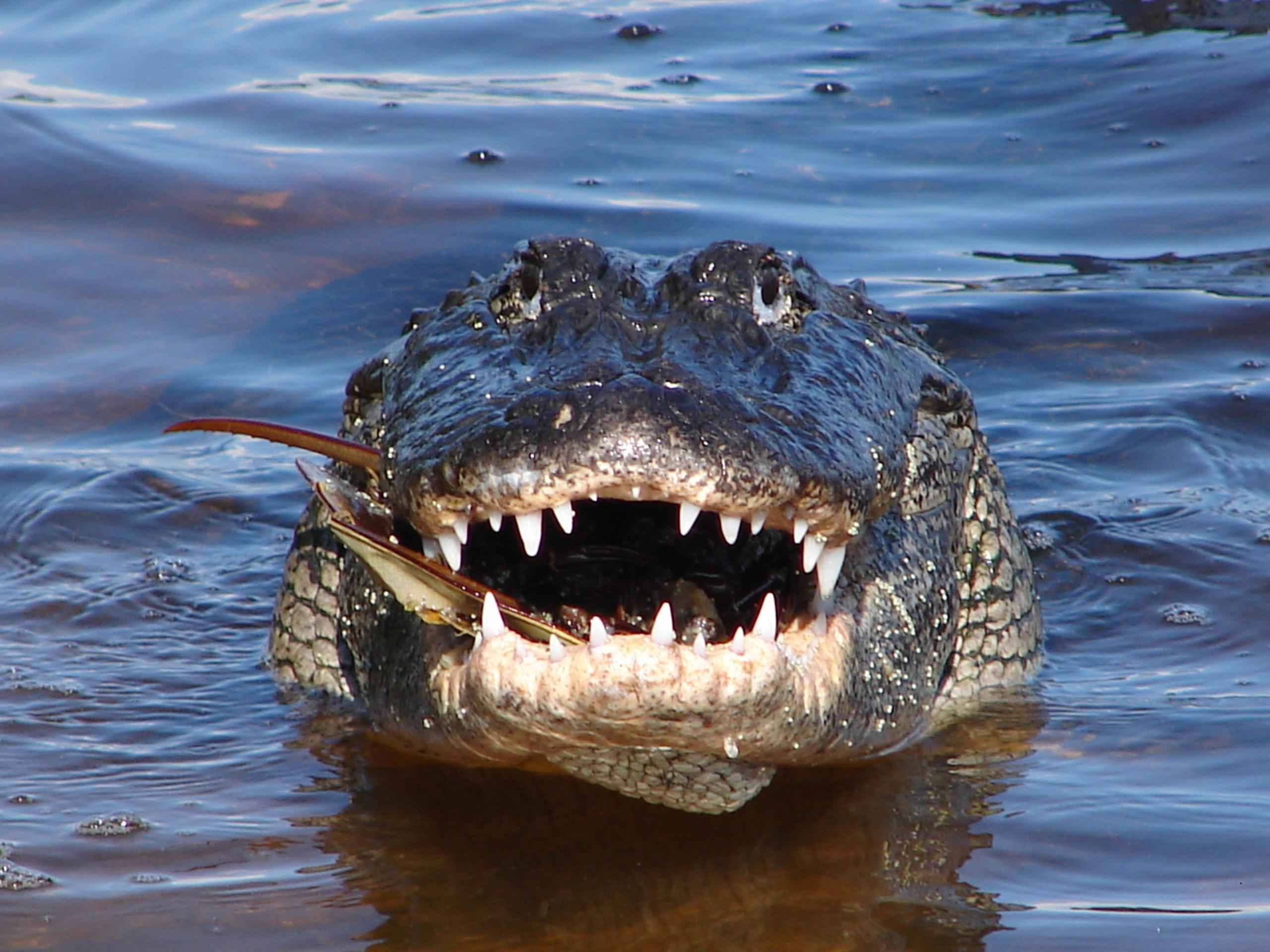 Image title: Close up front of adult alligator reptile alligator mississippiensis Image from Public domain images website